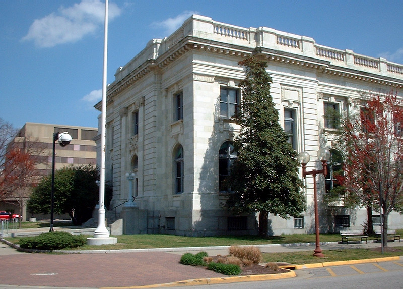 Newport News Federal Building, 26th St. and West Ave., Newport News, VA April 1st, 2006